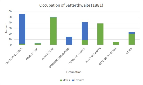 Bar chart showing the variety of jobs in Satterwaithe